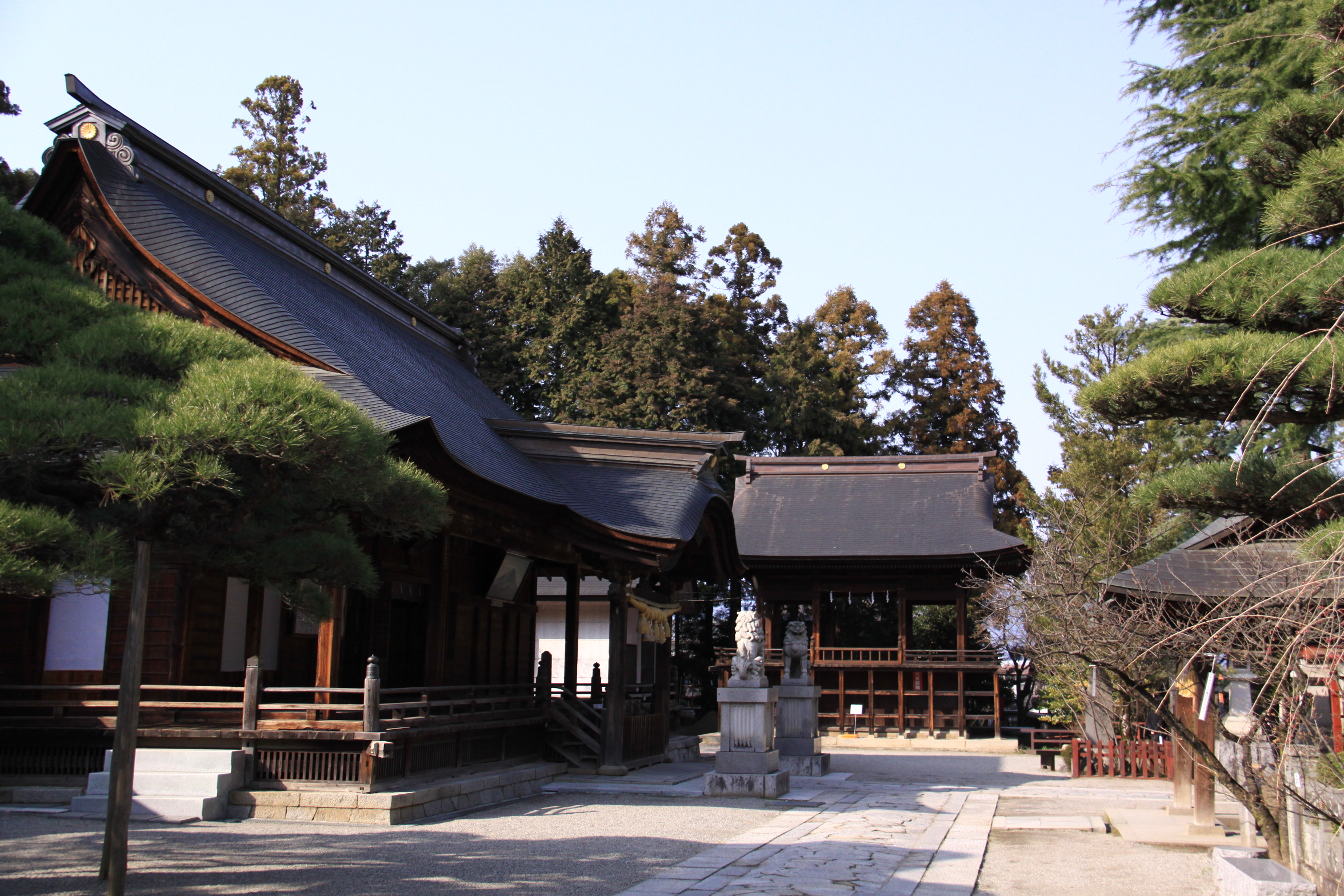 Ichinomiya asama jinja